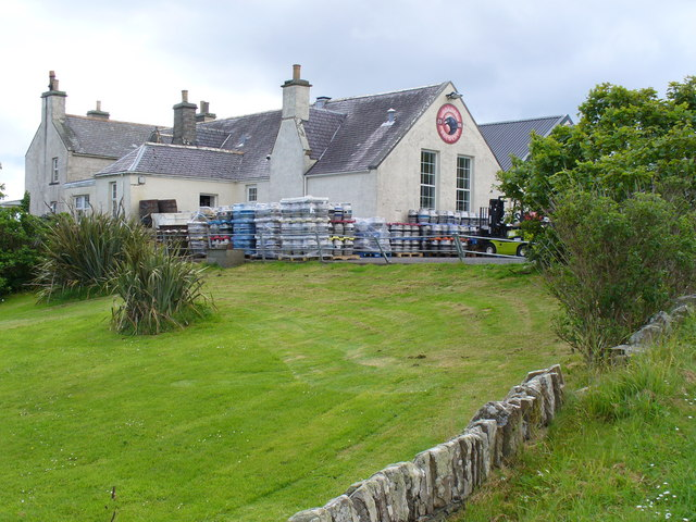 Orkney Brewery, Quoyloo Established in 1988, this small brewery produces an excellent range of real beers including Dark Island, Northern Lights, Raven and Red McGregor.